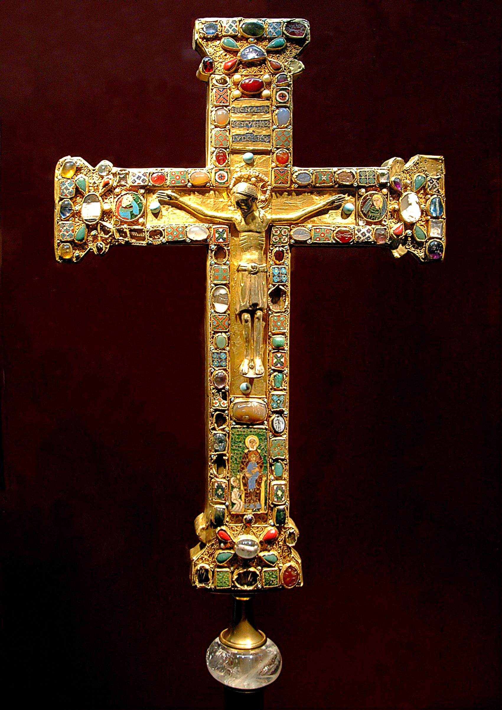 The second "Mathilda Cross" given by Mathilda, Abbess of Essen from 973 to her death in 1011, now in the Treasury of Essen Minster (with other items given by Mathilde). She is shown with the Virgin and Child in the enamel plaque at the base of the front. The cross was probably made in Cologne or Essen in the years before her death. Mathilda or Mathilde was a member of the Ottonian imperial family, the grand-daughter of Otto the Great and sister of Otto, Duke of Bavaria and Swabia (d 982). The corpus (body) is a replacement from later in the century. The cross re-uses classical engraved gems and cameos. Enamel roundels at the ends of the arms show Sol and Luna (personifications of the Sun and Moon). The back is a plain gold plate engraved with an Agnus Dei in the centre and the Envangelists' symbols at the ends of the members, all in roundels amid decoration of dots and foliage motifs. See: Lasko, Peter, Ars Sacra, 800-1200, Penguin History of Art (now Yale), p. 101 & 103, 1972 (nb, 1st edn.) ISBN14056036X